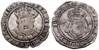 England Henry VIII. 1509-1547. Billon Testoon (6.45 g). Tower mint. Third coinage, 1544-1547.Trefoil stops; mm: pellet in annulet. Crowned facing bust; VIII in legend, Crowned rose; North 1841; Seaby 2365.